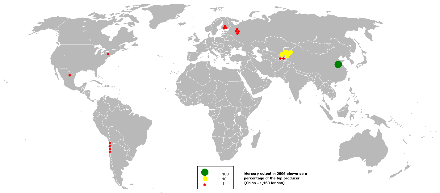 This bubble map shows the global distribution of mercury output in 2005 as a percentage of the the top producer (China - 1,150 tonnes). This map is consistent with incomplete set of data too as long as the top producer is known. It resolves the accessibility issues faced by colour-coded maps that may not be properly rendered in old computer screens. Data was extracted on 30th May 2007. Source - Based on Image:BlankMap-World.png